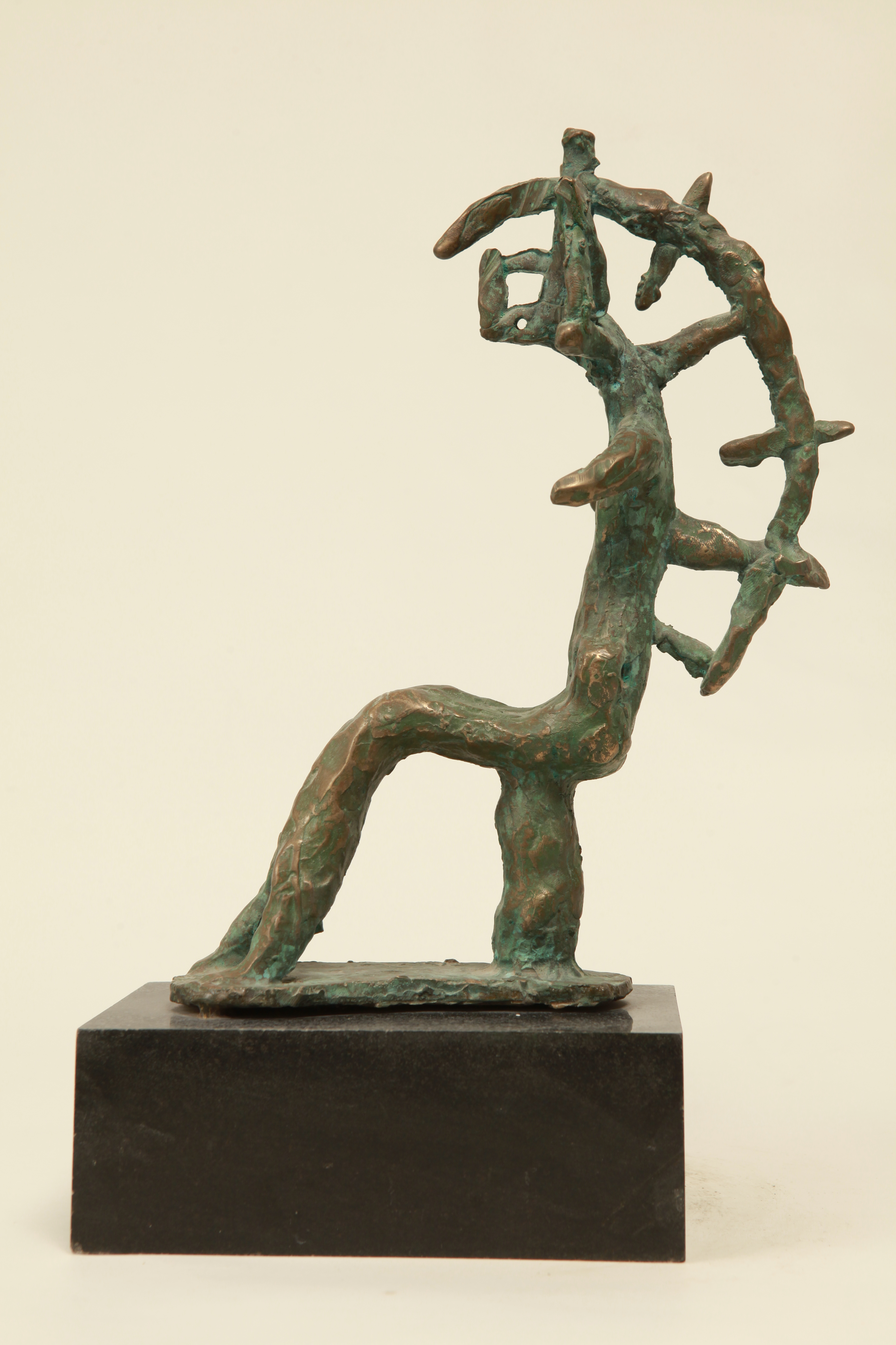 Tudor Cataraga art work, The Man-Bird made in 1994, bronze-granite.